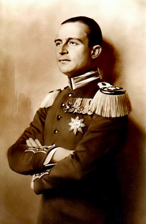 Portrait of Adolphus Frederick VI, Grand Duke of Mecklenburg-Strelitz (1882-1918)